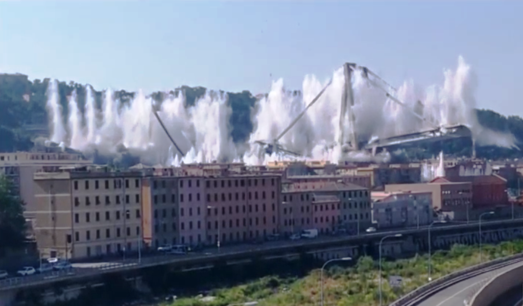 Explosion of the partially collapsed Ponte Morandi. Still image of video published with Creative Commons license. Changes made: improved digital brightness, digital watermark removal